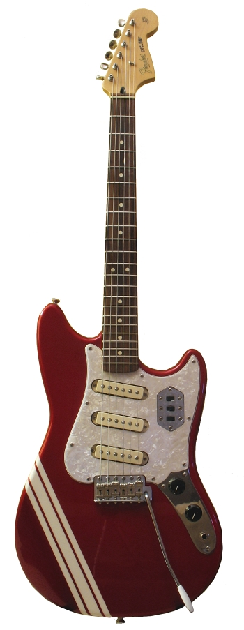 Fender Cyclone II